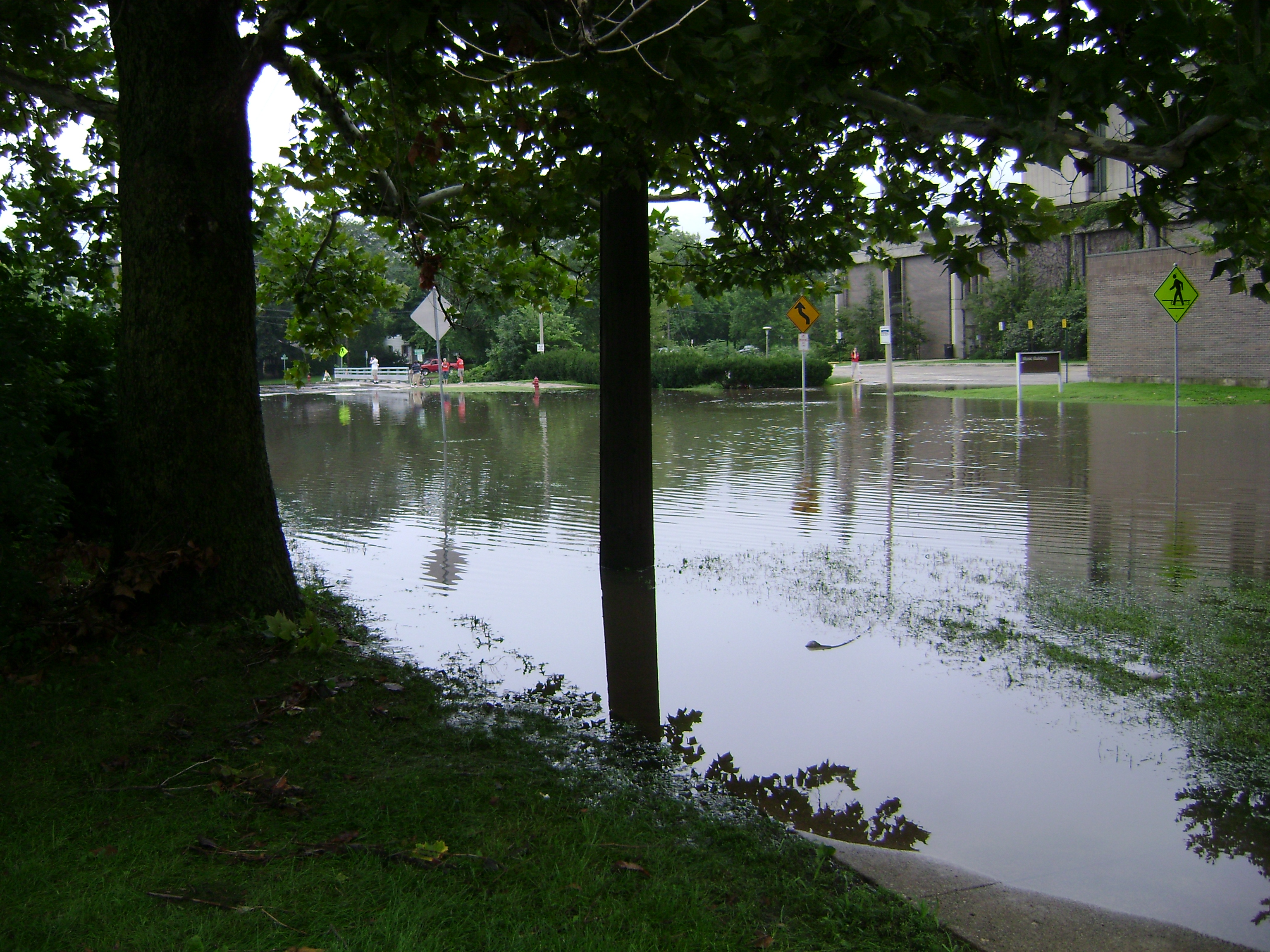 Floodwaters from the South Branch Kishwaukee River near Lucinda Drive In DeKalb, at the time of a significant flood crest on August 24th, 2007